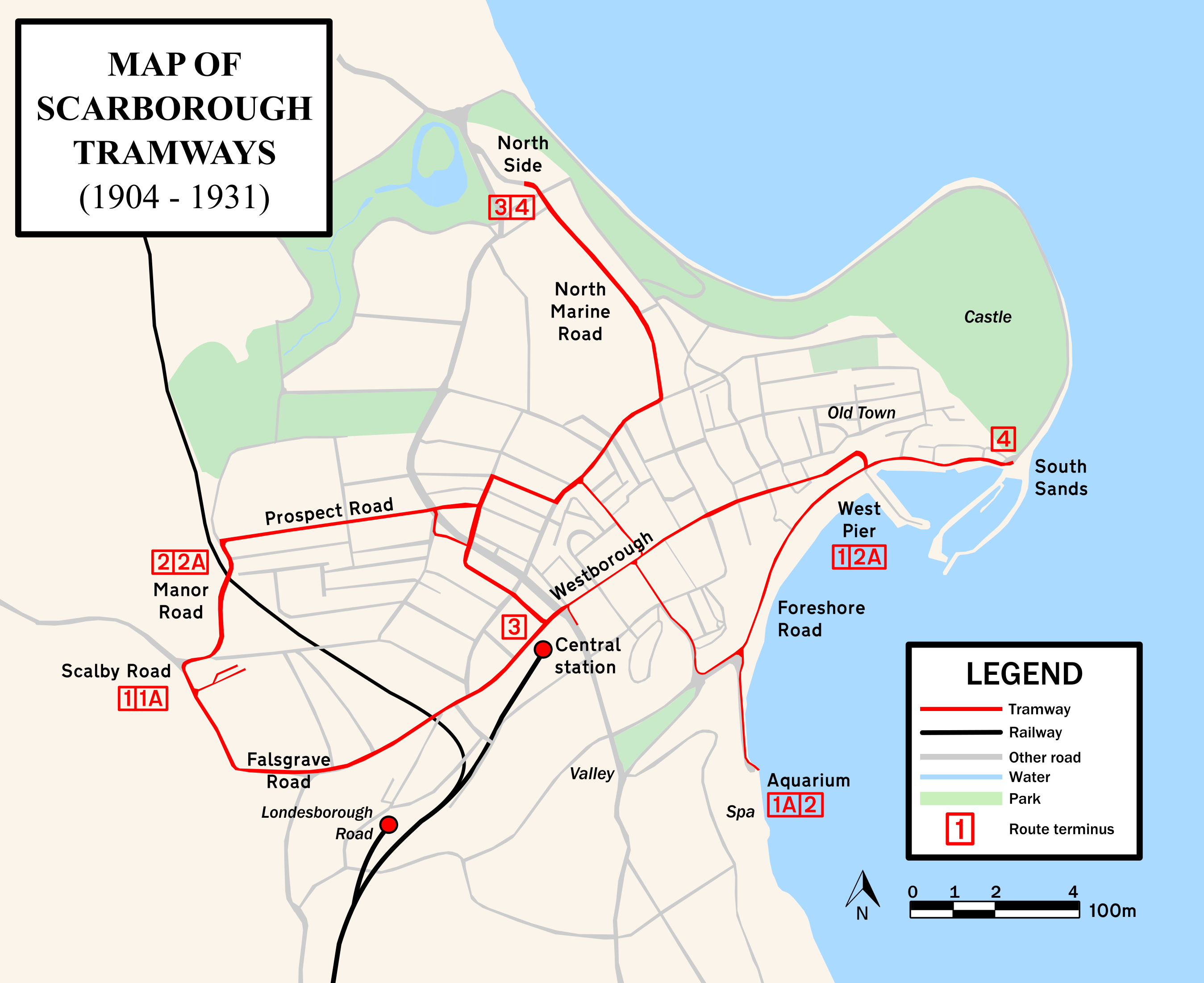 Map of routes operated by the Scarborough Tramways Company.